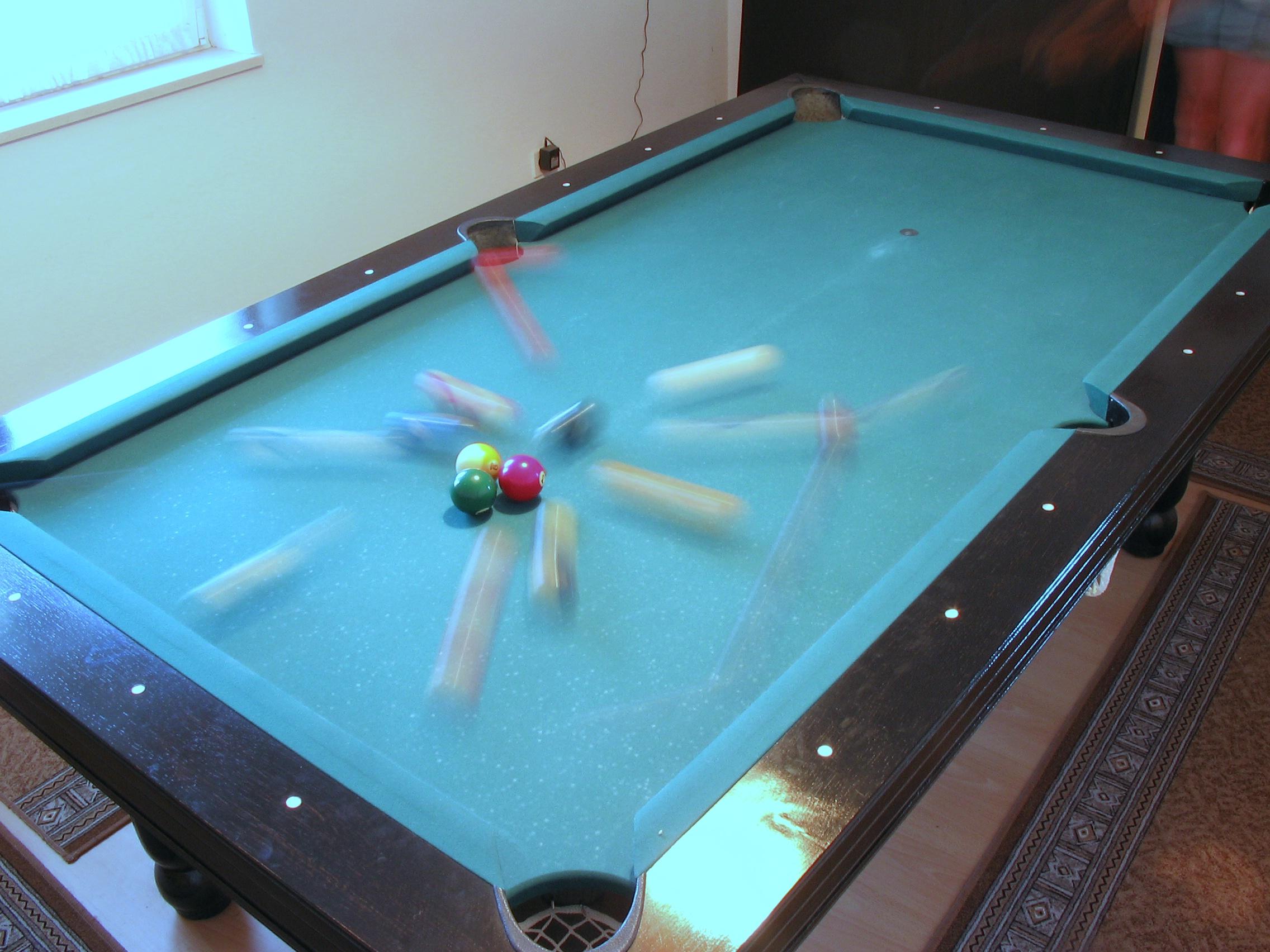 Break shot in billiard, long time exposure with flash to show dynamics